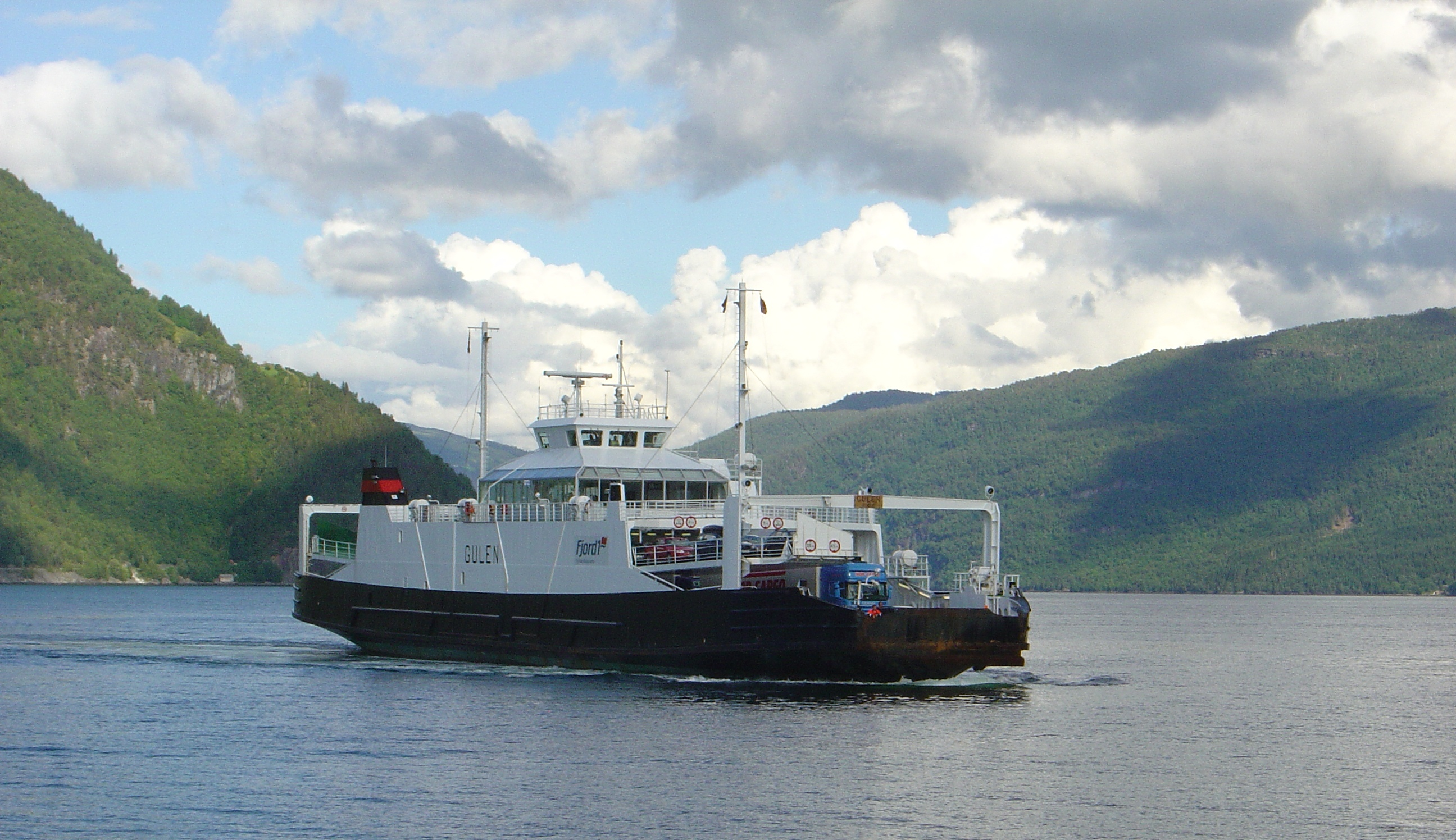 Ferryship M/F Gulen, in Nordfjord, Norway IMO Number: 8816027